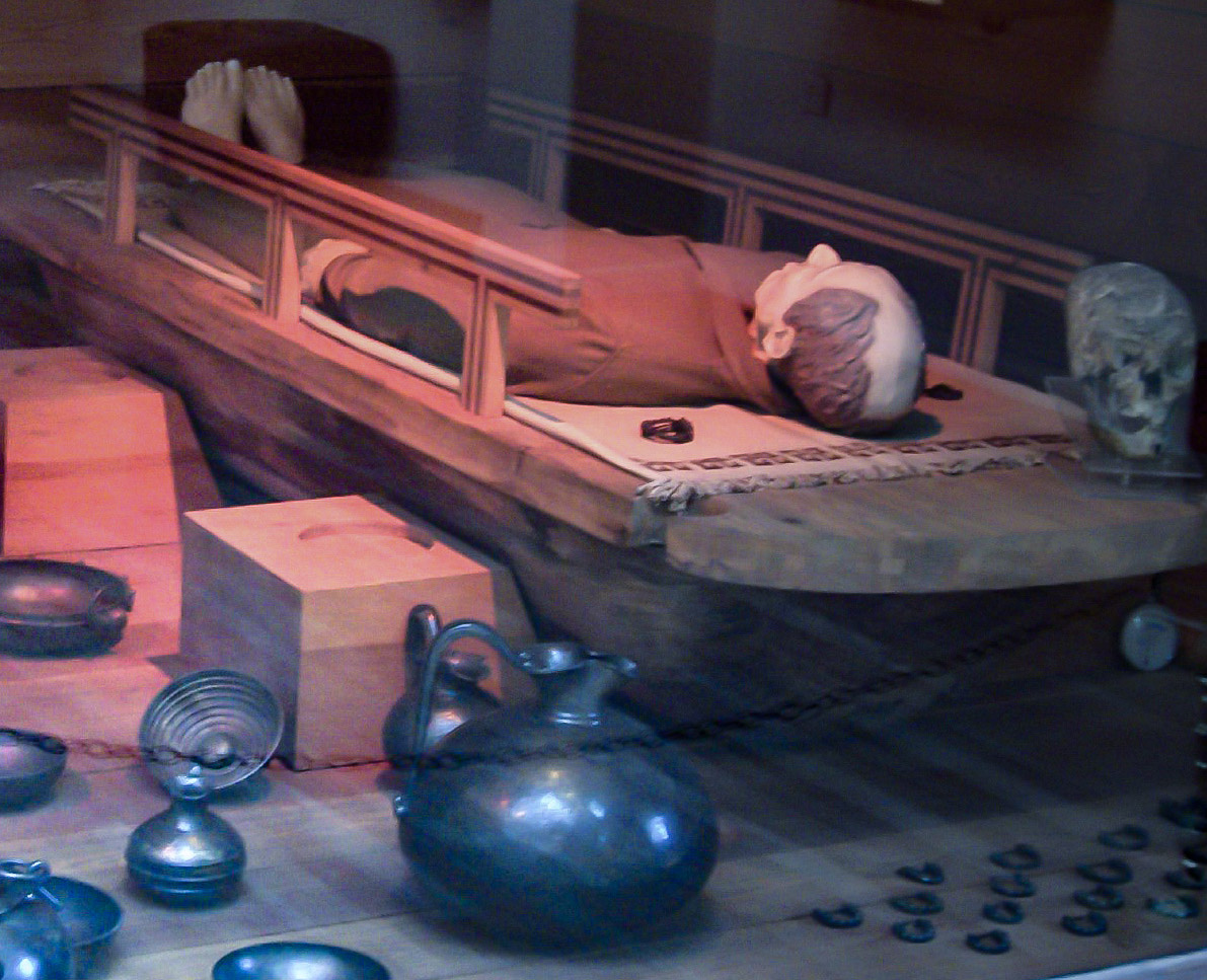 (Reconstruction of the) tomb of King Midas; found at Gordion; late 8th c. BC; Museum of Anatolian Civilizations, Ankara, Turkey